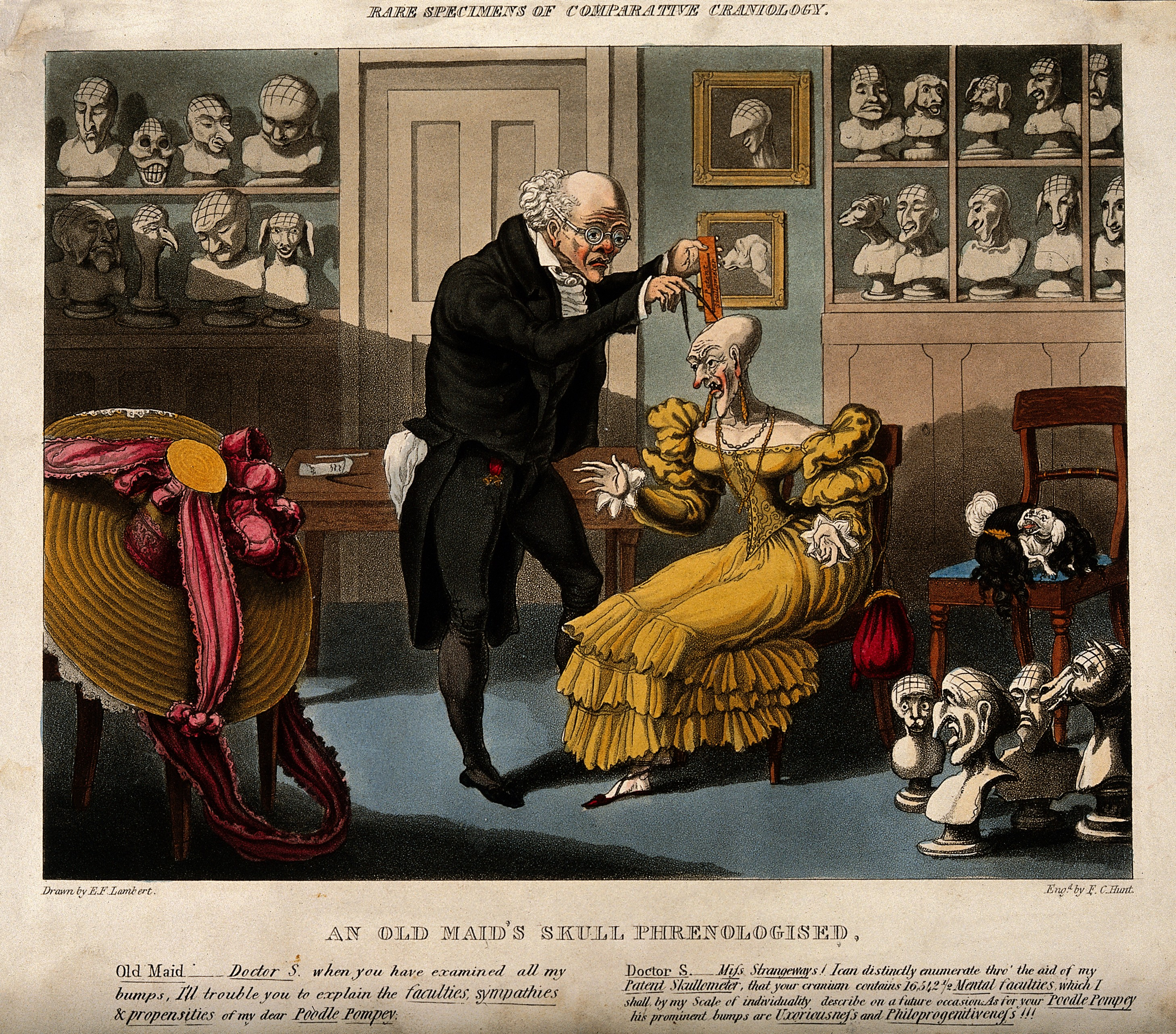 Franz Joseph Gall measuring the head of a bald, elegantly dressed old lady; her pet poodle is entwined in her wig on a chair. Coloured aquatint by F.C. Hunt after E.F. Lambert. Iconographic Collections Keywords: Wig; Hairstyle; Fashion; century; F.C. Hunt; gall, franz joseph, 1758-1828; Head; costume - history - 19th centu; E.F. Lambert; Phrenology; Hair; Johann Gaspard Spurzheim; Caricatures; Wig macker; house furnishings - great brit; Franz Joseph Gall; wigs; Hairdressing